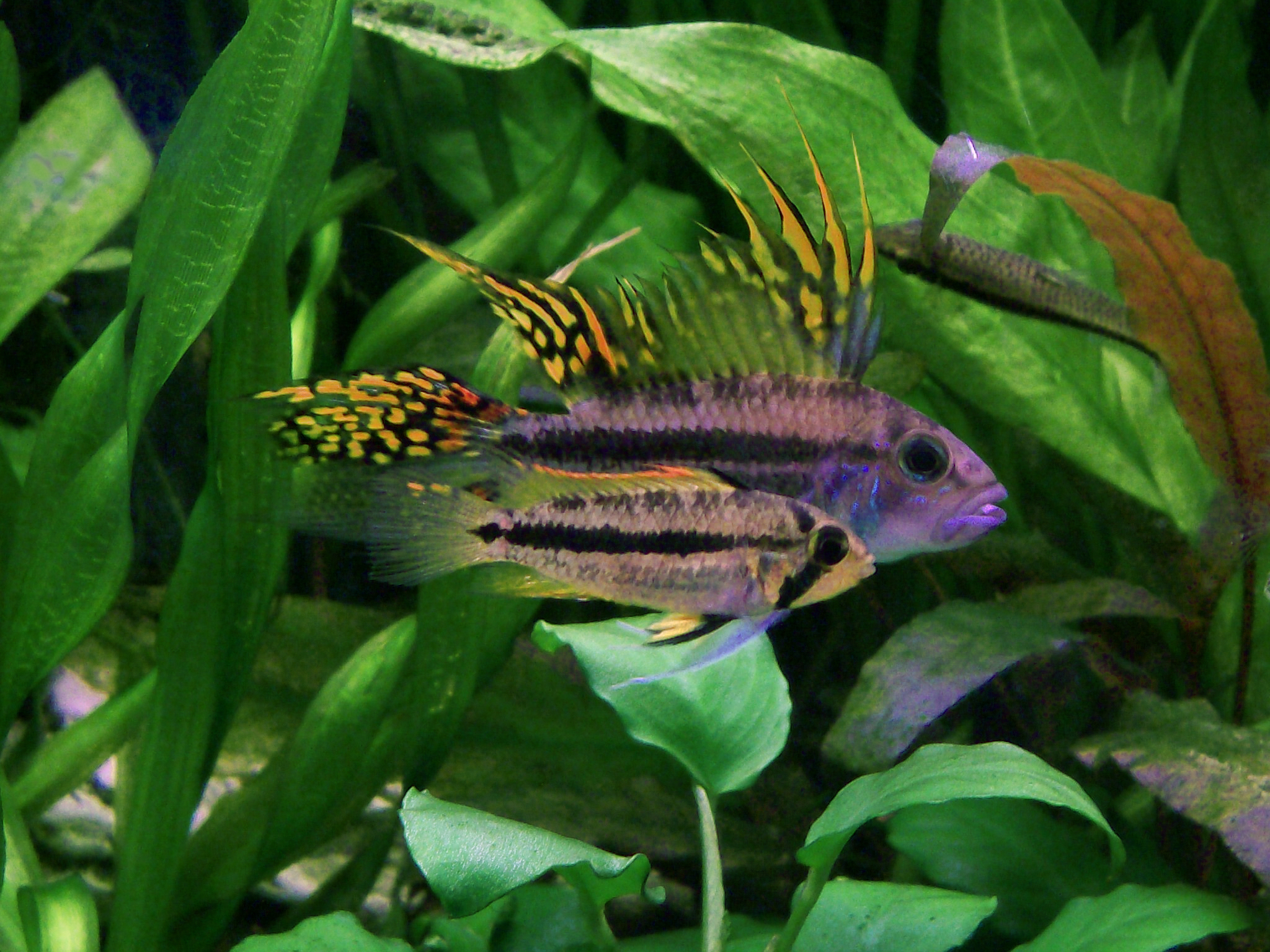 Cockatoo dwarf cichlid (Apistogramma cacatuoides), male in the back, and and a female in the foreground.